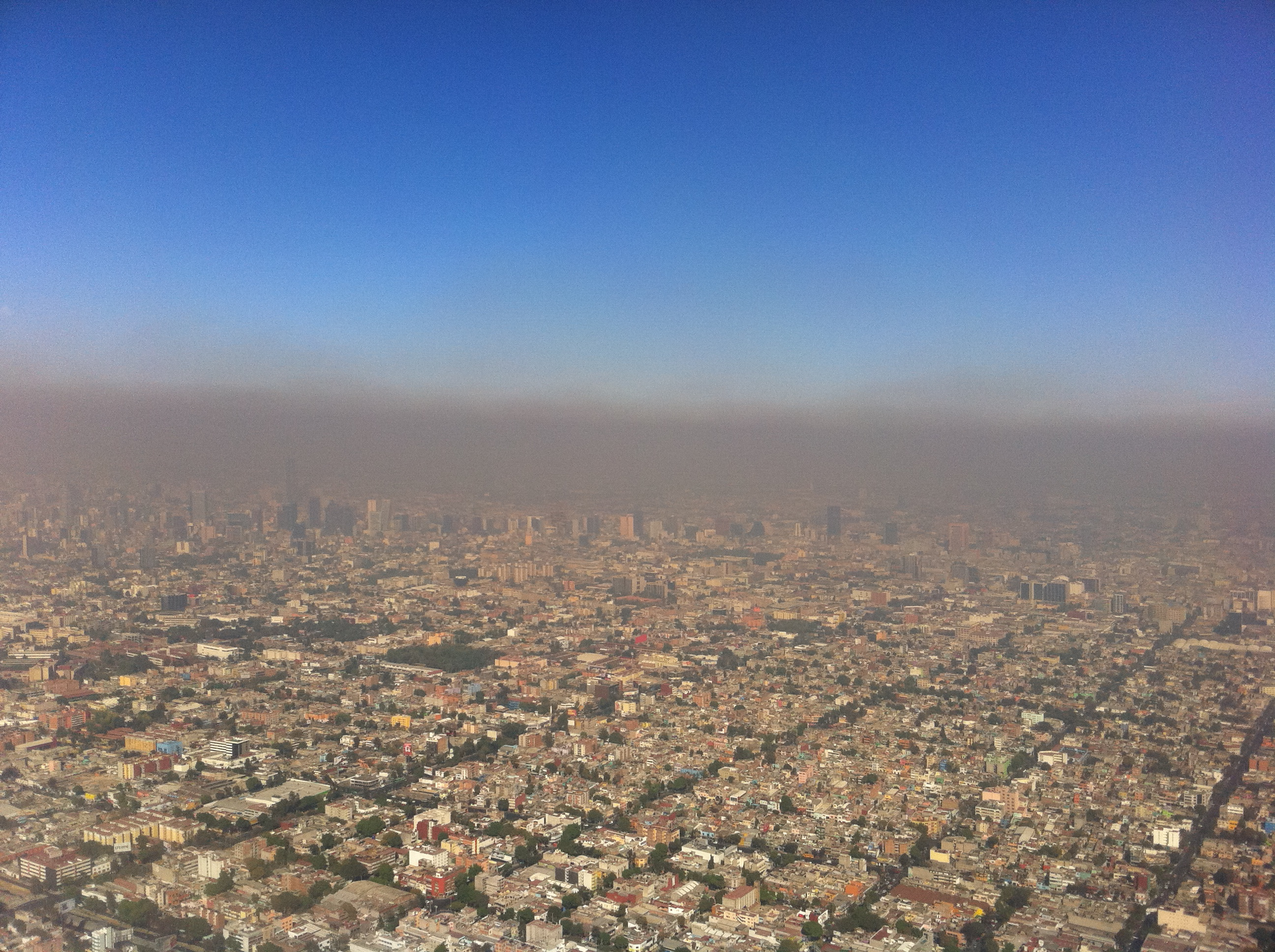 Aerial View of Photochemical Smog Pollution Over Mexico City